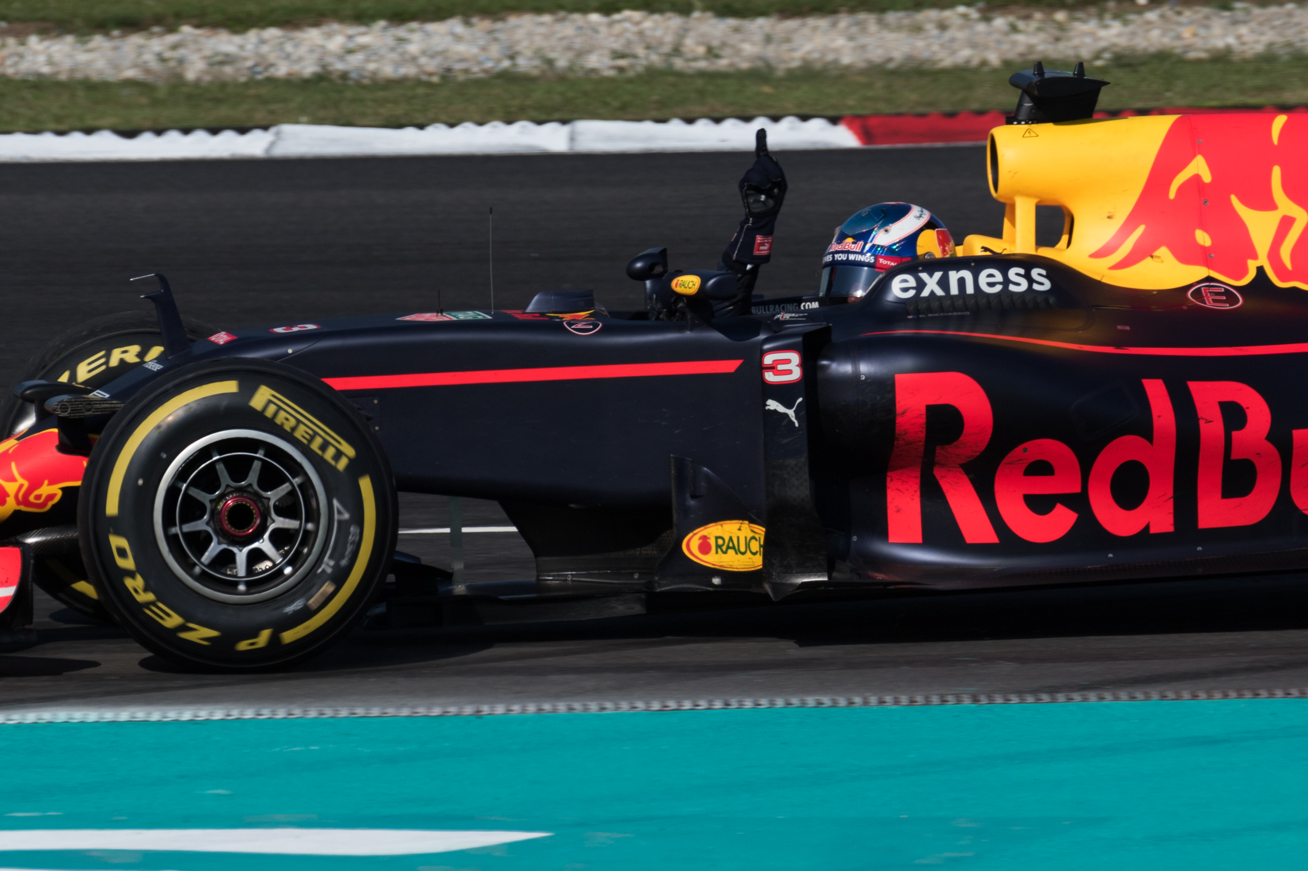 Formula One 2016 Rd.16 Malaysian GP: Daniel Ricciardo (Red Bull))